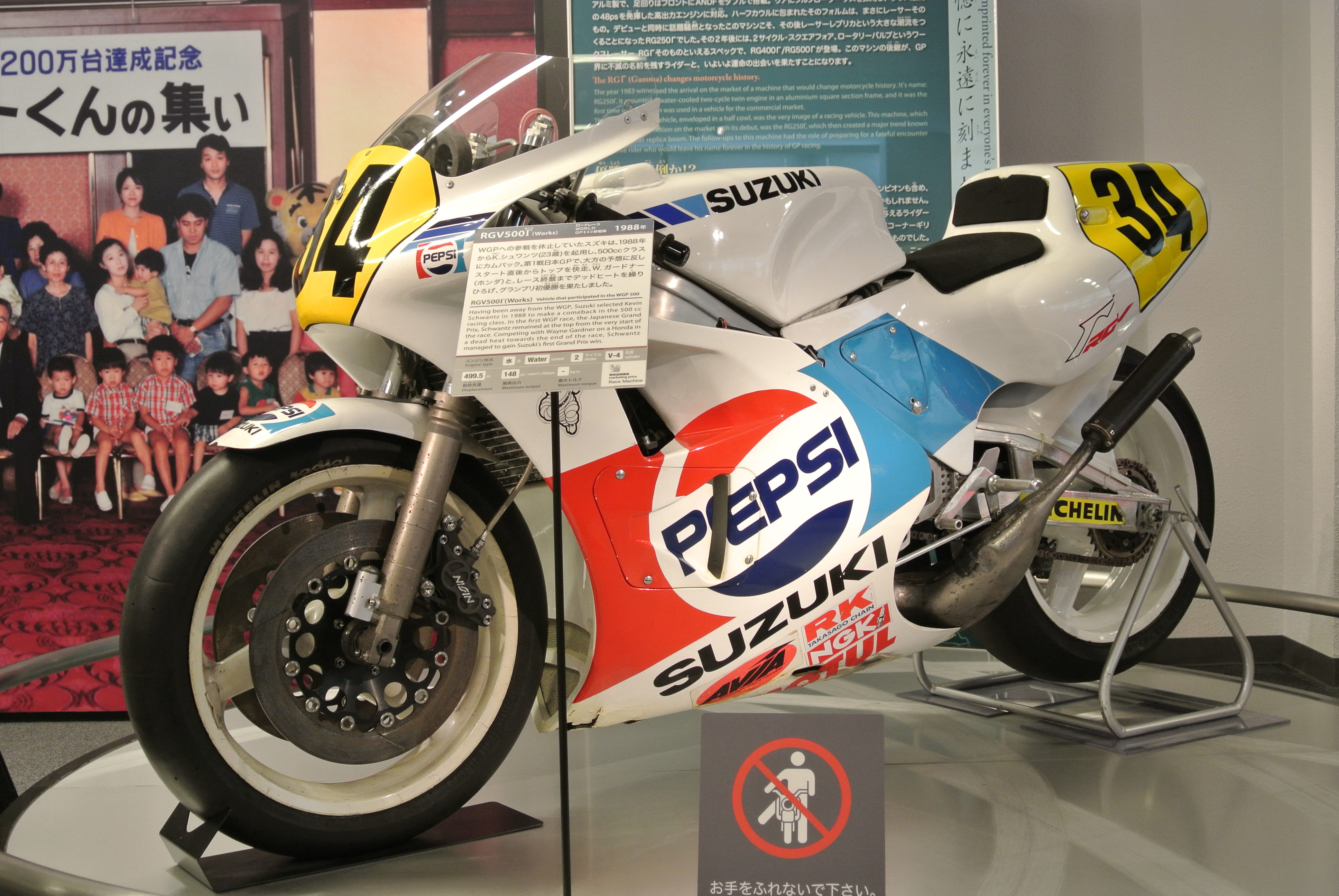 1988 RGV500Γ in the Suzuki History Museum.